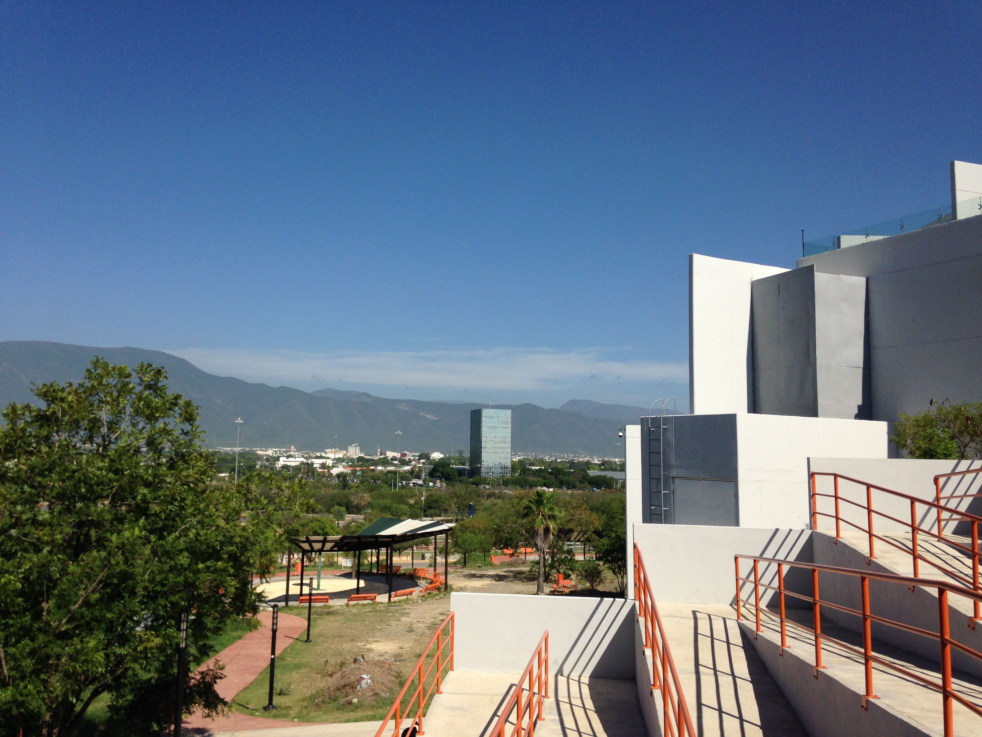 Vista de zona centro y sur de Ciudad Victoria desde el Museo TAMUX